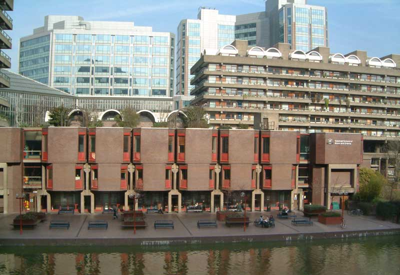 Guidhall school over the Barbican lake, large, photo by Nevilley